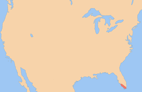 Location of the indigenous Calusa